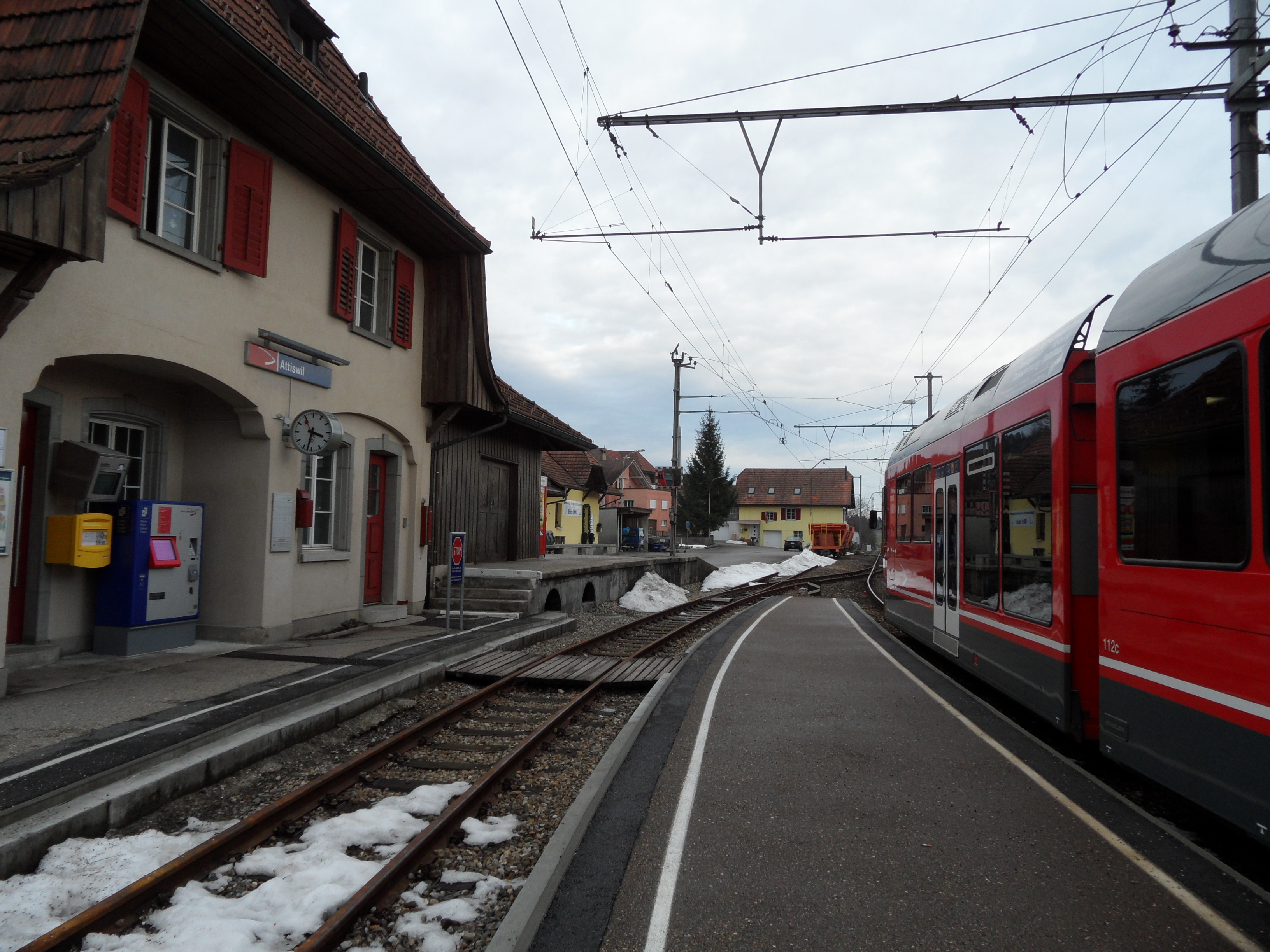 Railway station of Attiswil, canton of Bern, Switzerland, with Aare Seeland mobil train to Niederbipp (train type Stadler STAR).